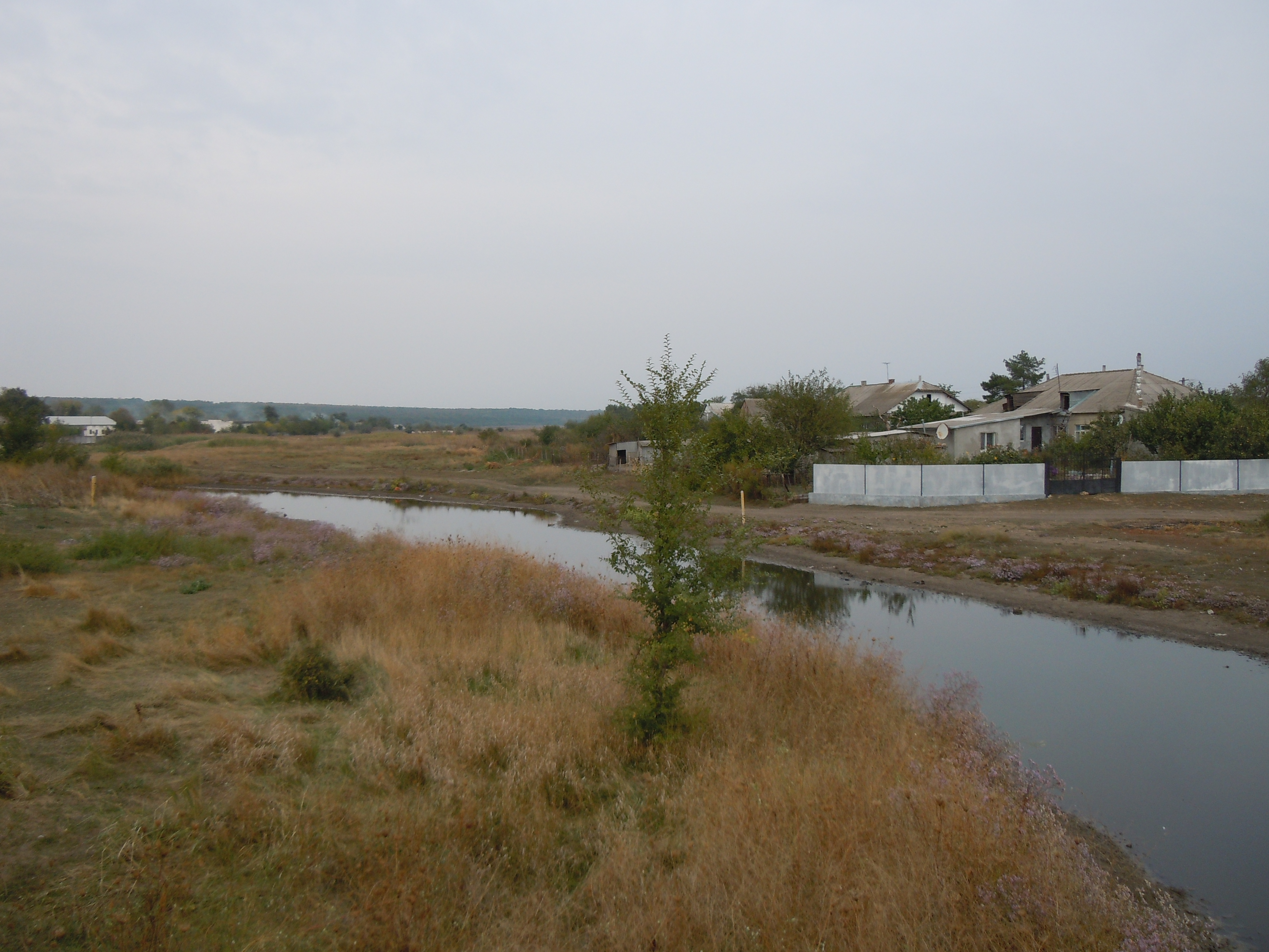 The Sarata River in Sarata, Odessa Oblast, SW Ukraine